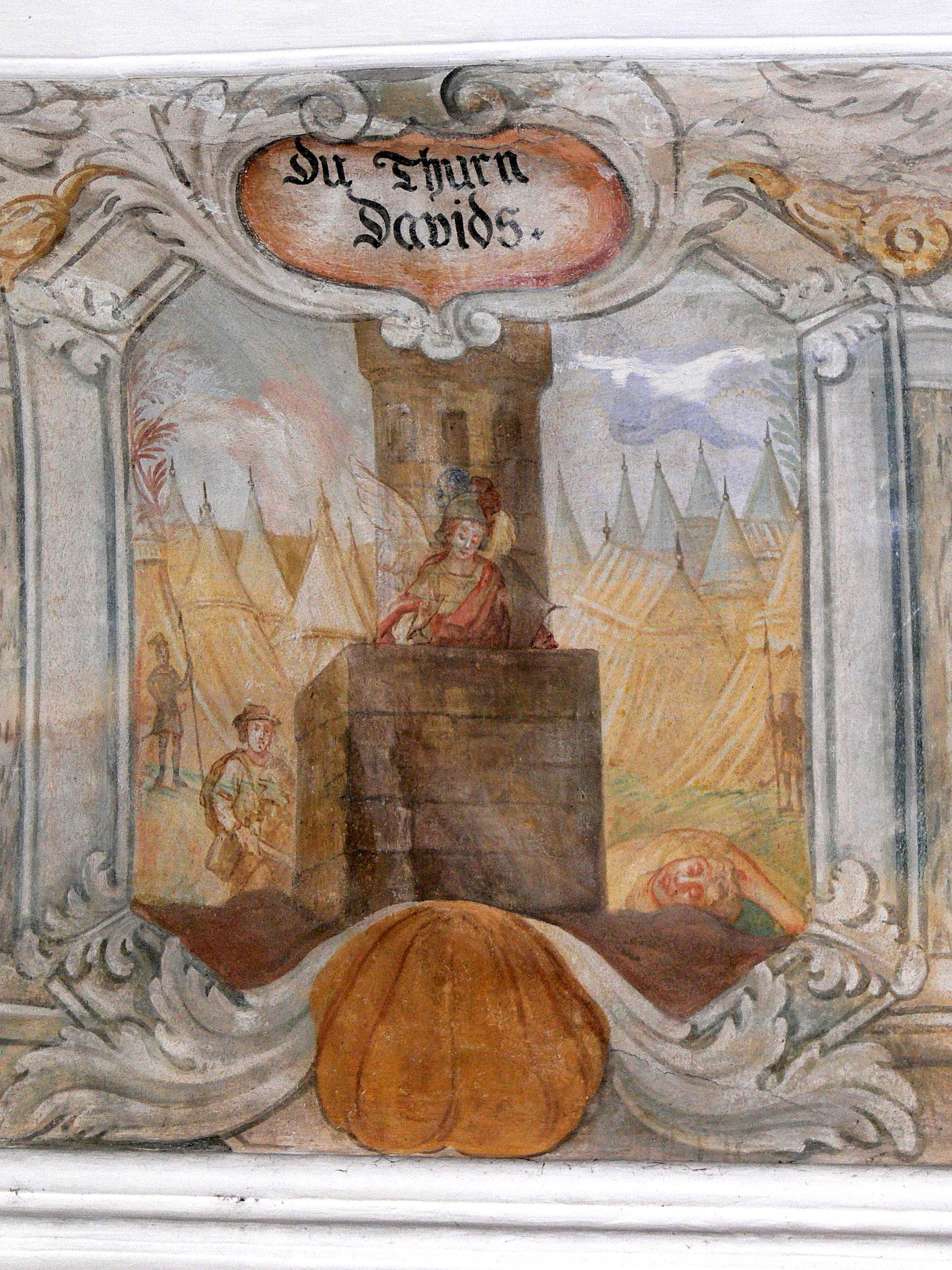 Our Lady´s chapel in Altenmarkt. Fresco illustrating the Lauretan litany "Mary, you tower of David".